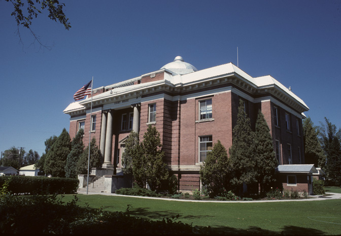 Fremont County Courthouse, located at 151 W. 1st St., N. in St. Anthony, Idaho, United States, built in 1889.